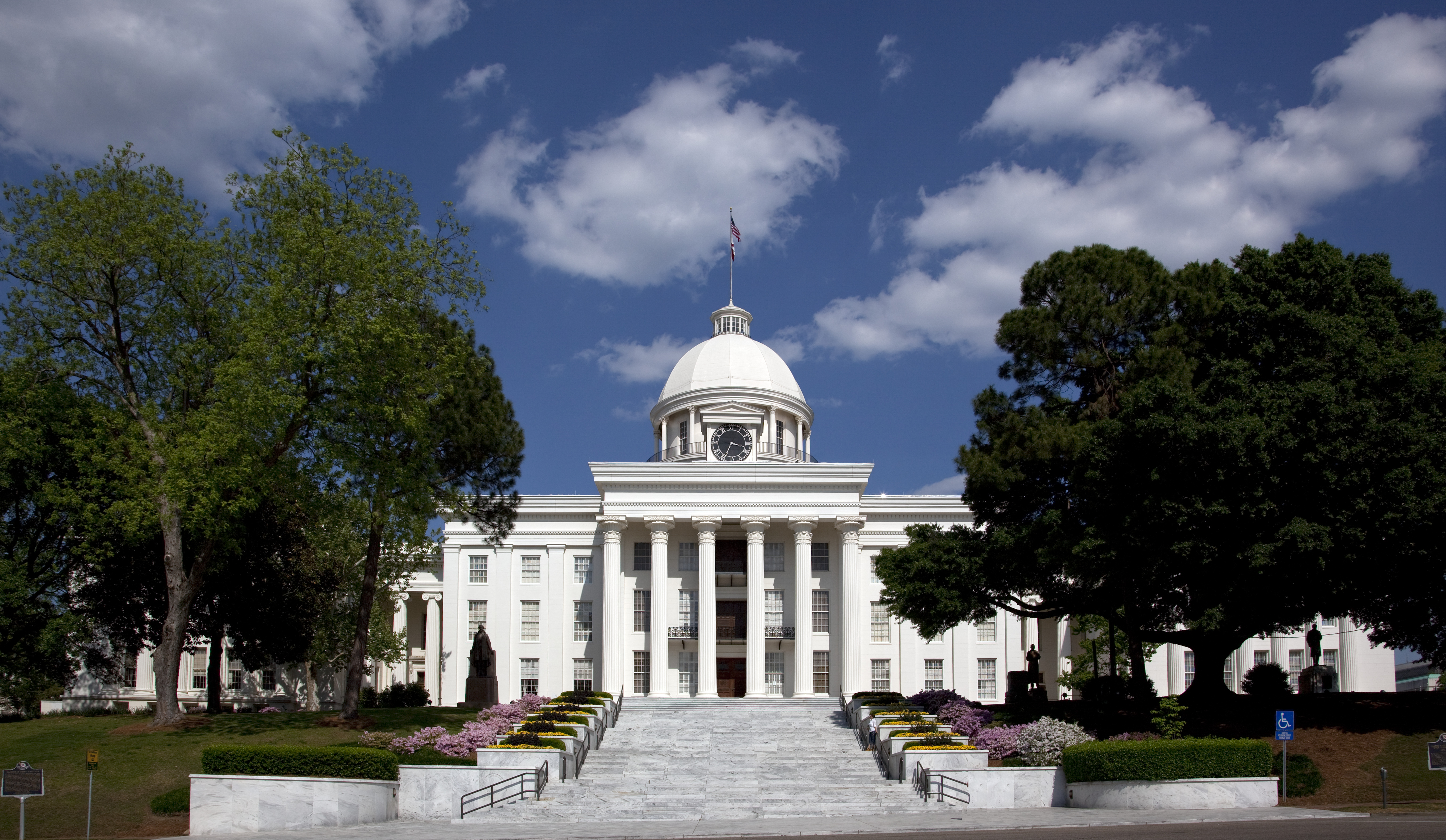 Capitol Building, Mongomery, Alabama.